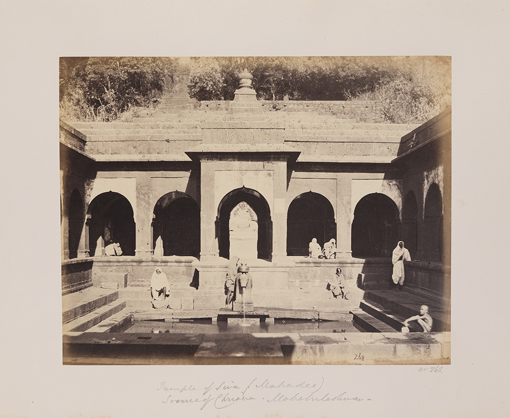 Title: Temple of Siva (Mahades), Source of Chrisna. Mahabuleshwar. Alternative Title: [Panchganga Temple (Mahadev), Source of Krishna River, Mahabaleshwar] Creator: Johnson, William Date: ca. 1855-1862 Series: Photographs of Western India. Volume III. Scenery, Public Buildings, &c. Part of: Photographs of Western India Place: Mahabaleshwar, Maharashtra, India Description: This is the interior of the Panchganga (Five Rivers) Temple in Old Kshetra Mahabaleshwar, the attributed source of the Krishna, Koyna, Venna, Savitri, and Gayatri rivers. Physical Description: 1 photographic print: albumen, part of 1 volume (104 albumen prints); 20 x 26 cm on 35 x 42 cm mount File: vault_ag2002_1407x_3_268_temple_opt.jpg Rights: Please cite Southern Methodist University, Central University Libraries, DeGolyer Library when using this image file. A high-quality version of this file may be obtained for a fee by contacting . For more information, see: View Europe, India, and Asia: Photographs, Manuscripts, and Imprints